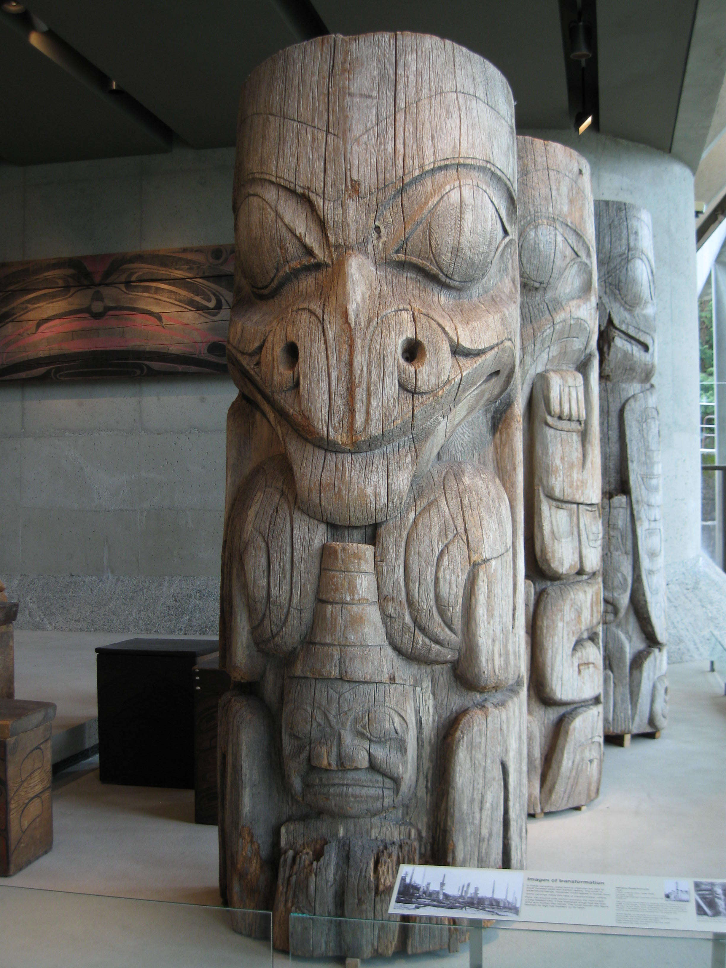 This Haida house-front pole once stood before a dwelling named "Plenty of Ilimen-Hides in this House." It belonged to an Indian clan named 'Those Born at Qadasgo Creek.' It is now part of the UBC Museum of Anthropology's collection in Vancouver, Canada.